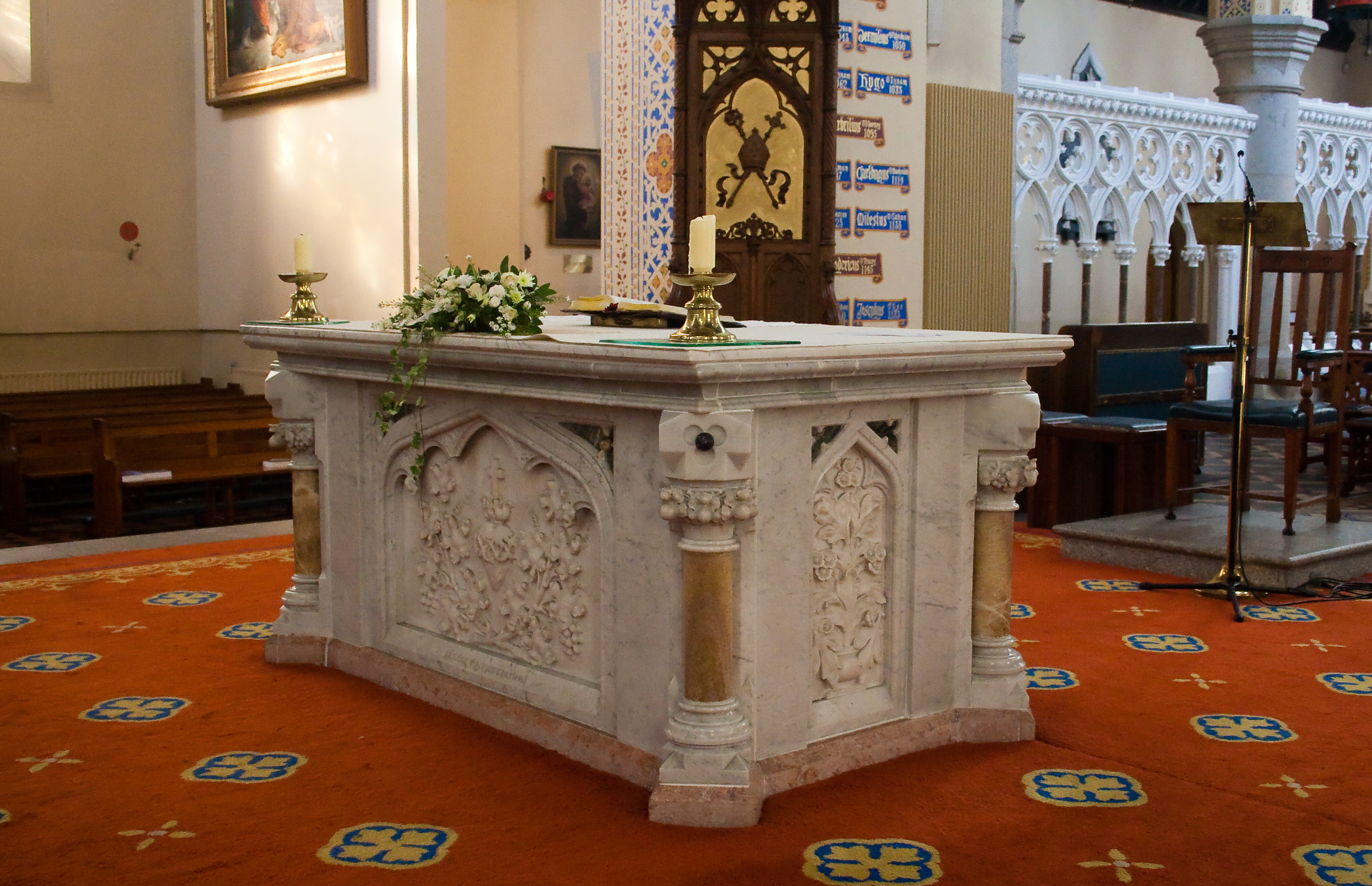 Main altar below the crossing.